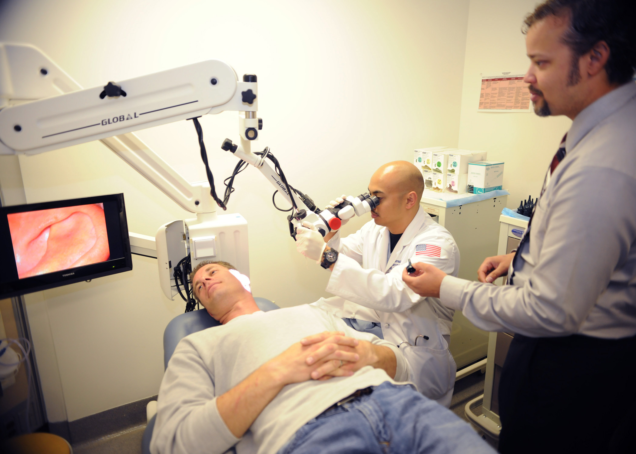 SAN DIEGO (March 8, 2011) Lt. Art Ambrosio, center, a second year resident in the Otolaryngology Department at Naval Medical Center San Diego, and Ear, Nose and Throat technician Zapata Hough examine the left ear of Christopher Donoho. The department has 70 staff members and treats more than 20,000 patients a year with medical conditions such as speech, audiology, sinus, vocal cord and swallowing problems. (U.S. Navy photo by Mass Communication Specialist Seaman Joseph A. Boomhower/Released)